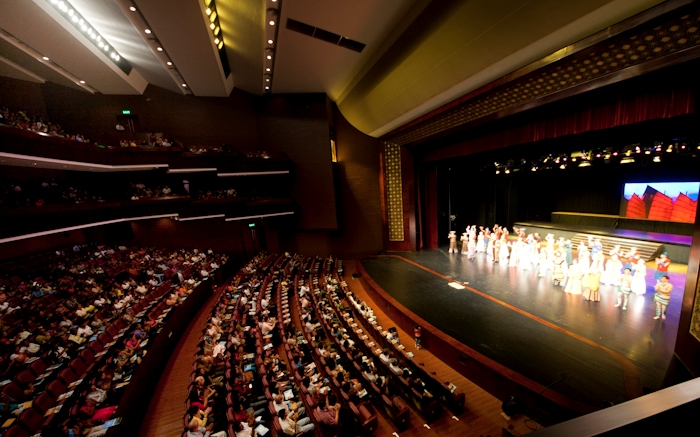 Chinese artistes perform at the auditorium #2